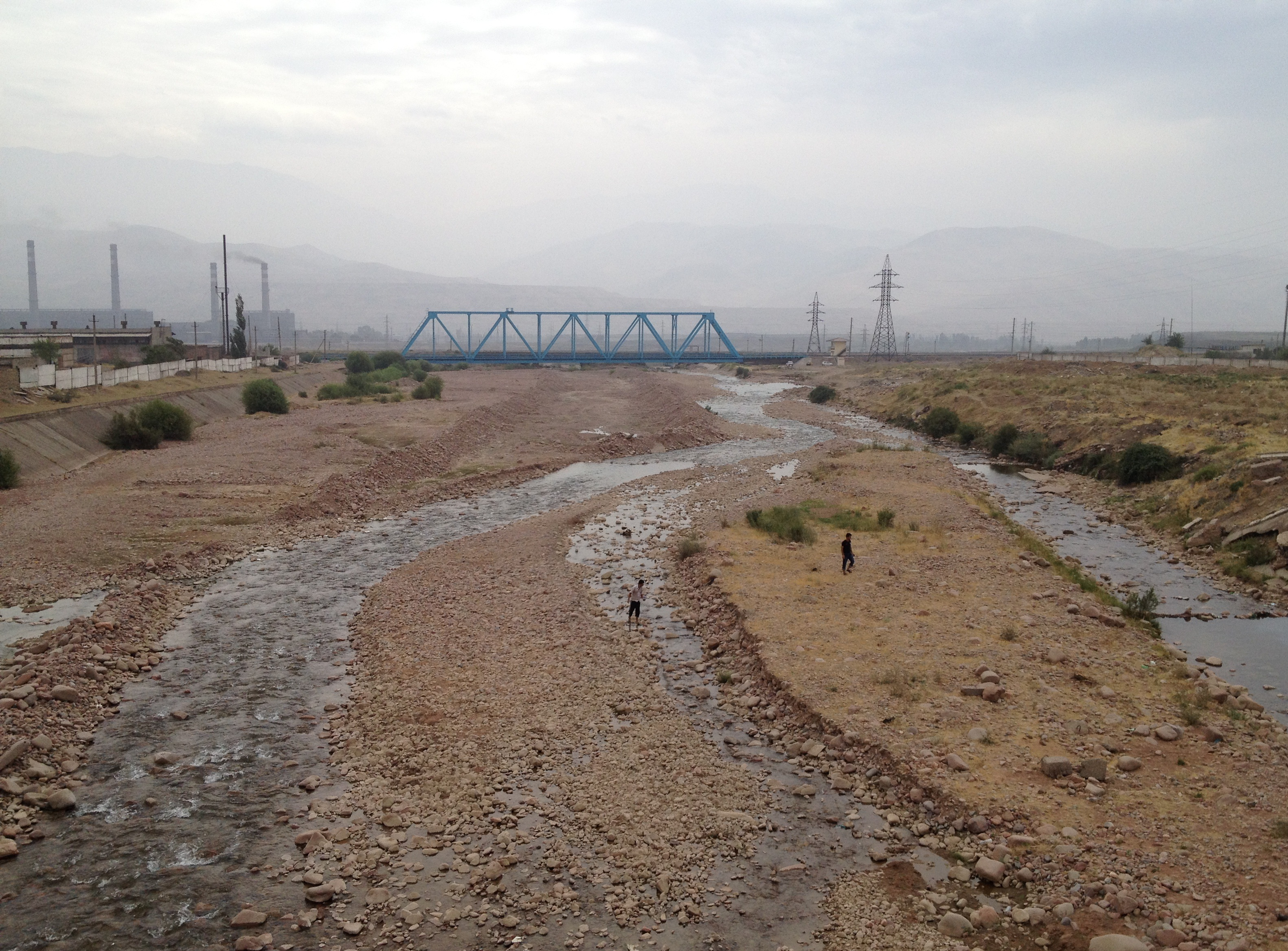 Dukentsoy river with railway bridge in Angren town, Tashkent province